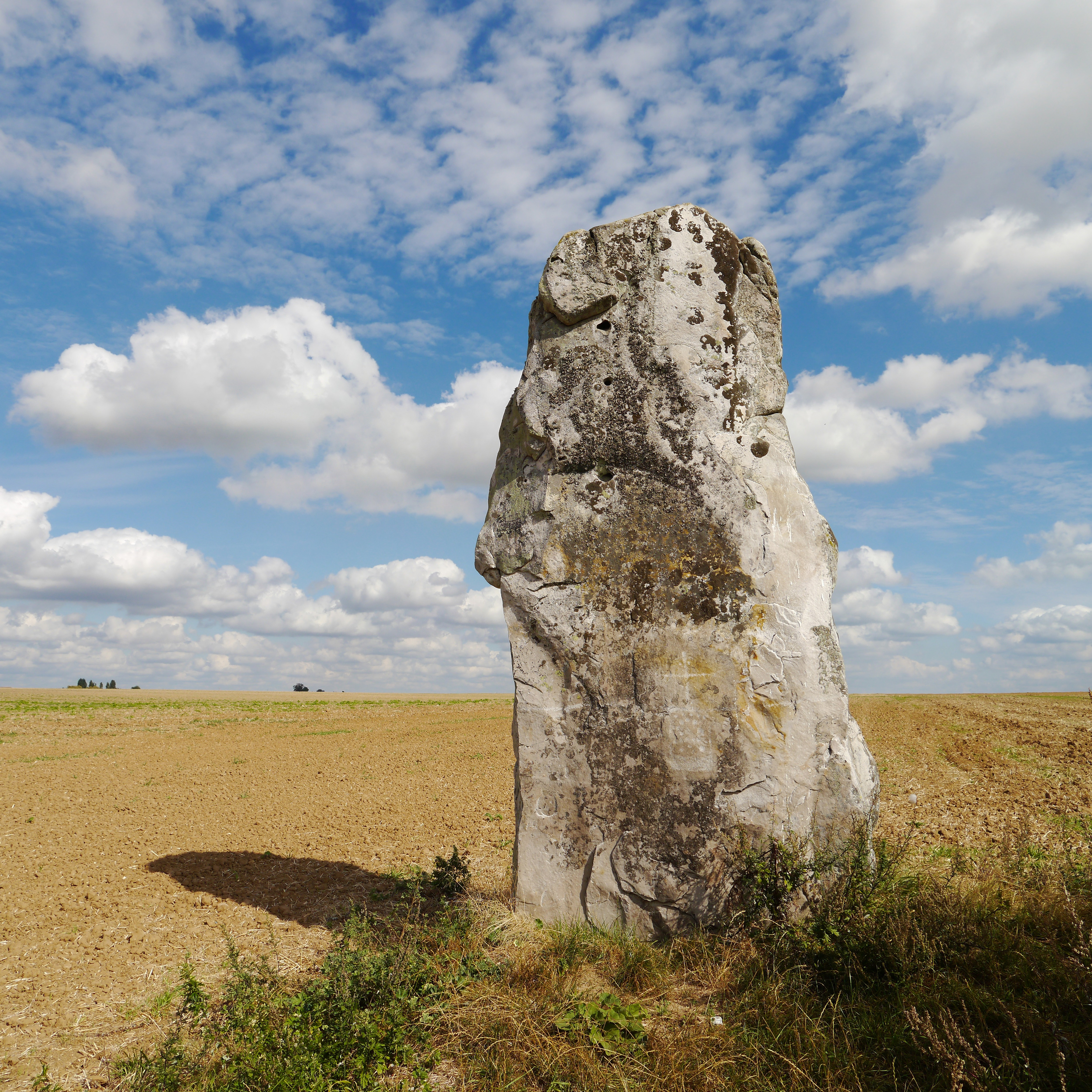 Milly-la-Forêt, Essonne, France. Pierre Droite.